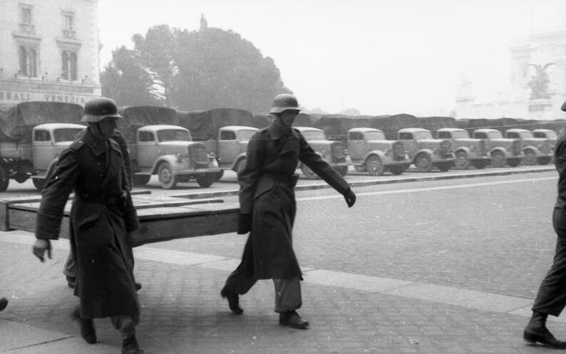 Information added by Wikimedia users.